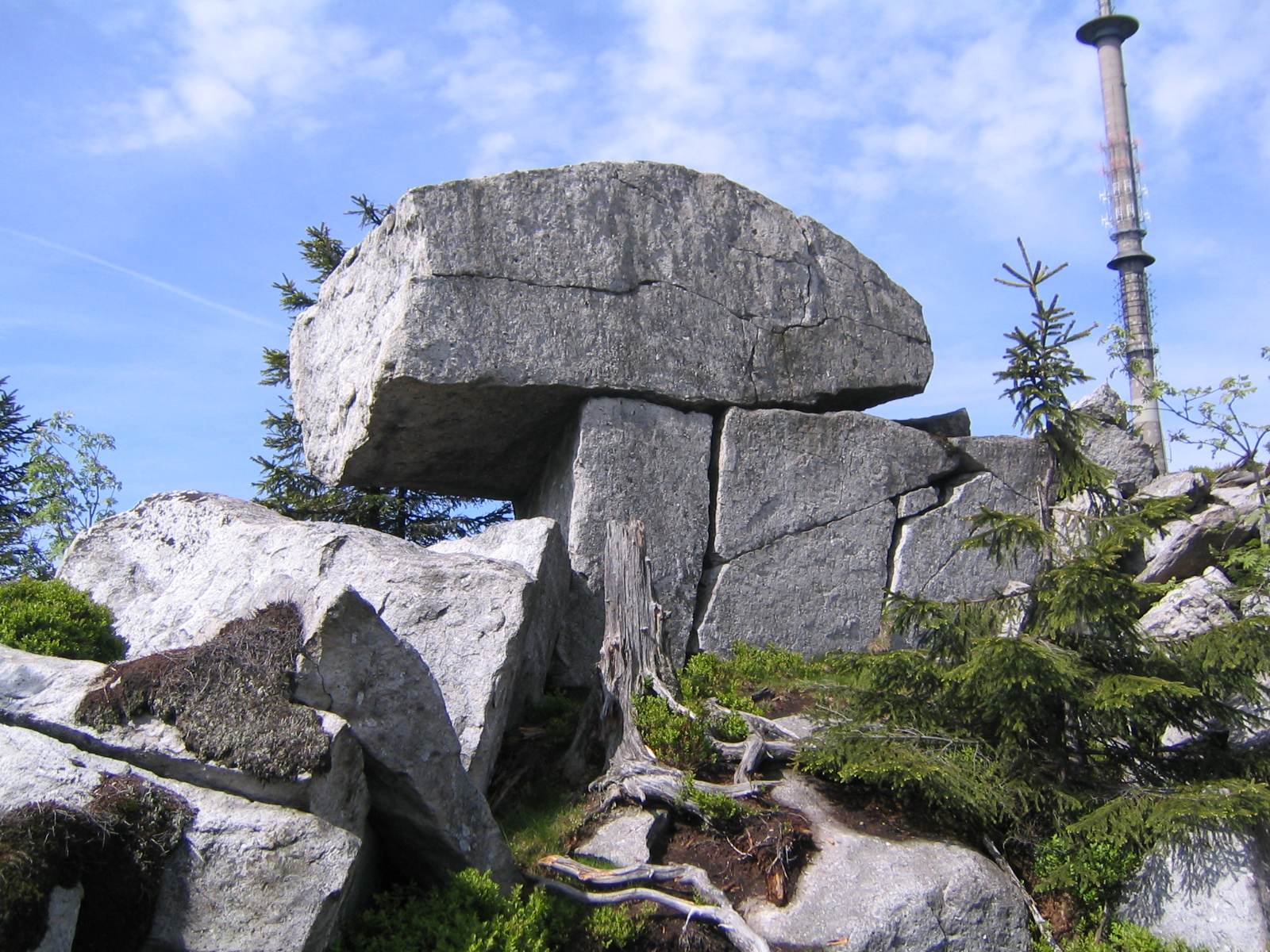 The Goethe Rocks on the Ochsenkopf, Fichtelgebirge mountains, Bavaria, Germany